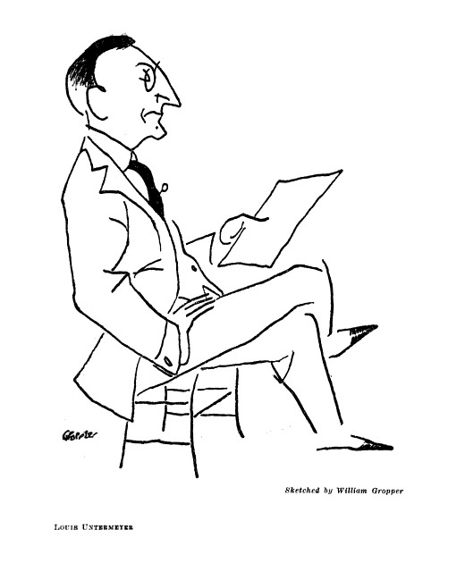 Caricature of American writer Louis Untermeyer (1885-1977) by William Gropper. From "The Literary Spotlight I: Louis Untermeyer" in The Bookman, October 1921, p. 125.